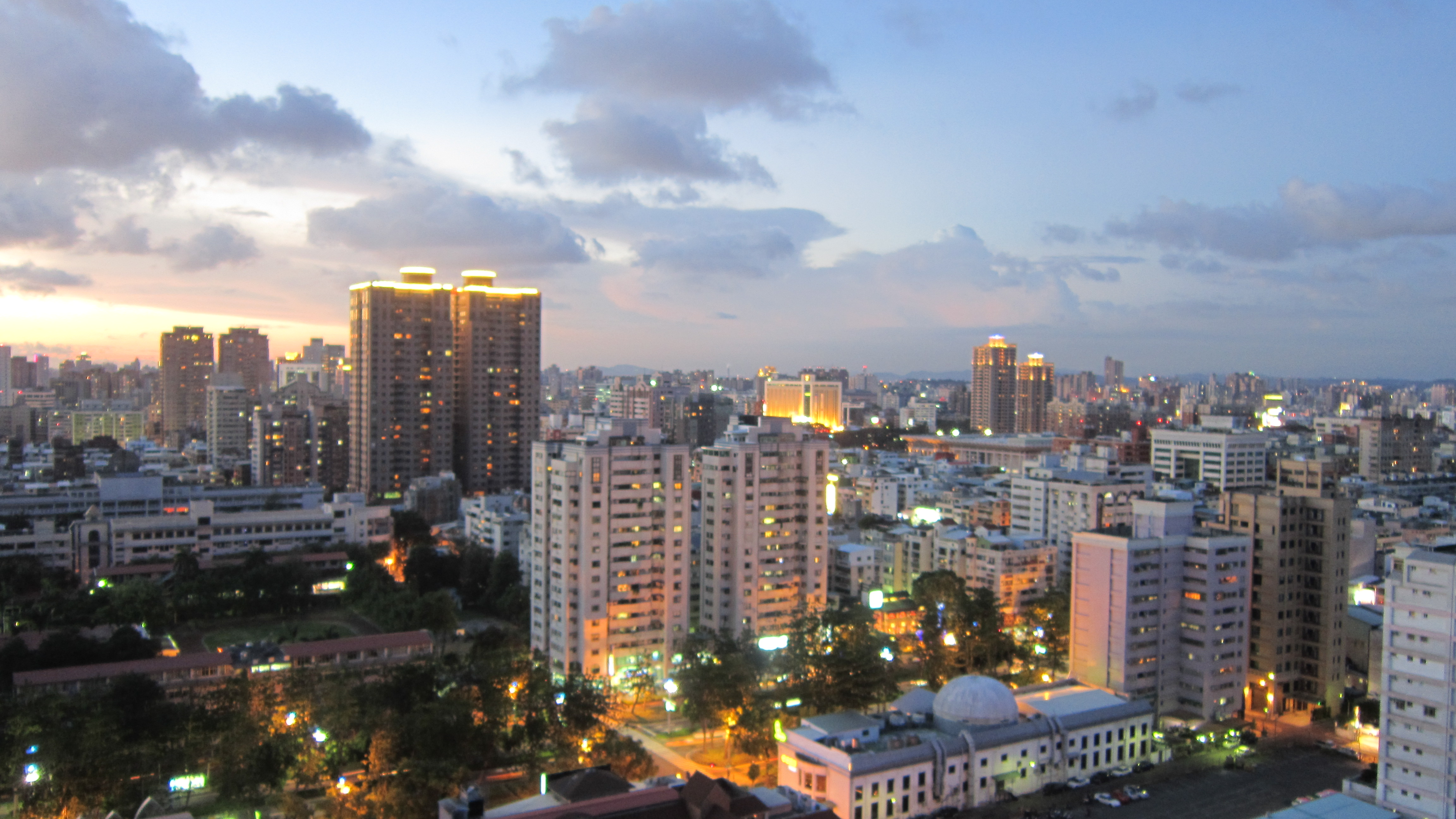 Lingya District, Kaohsiung